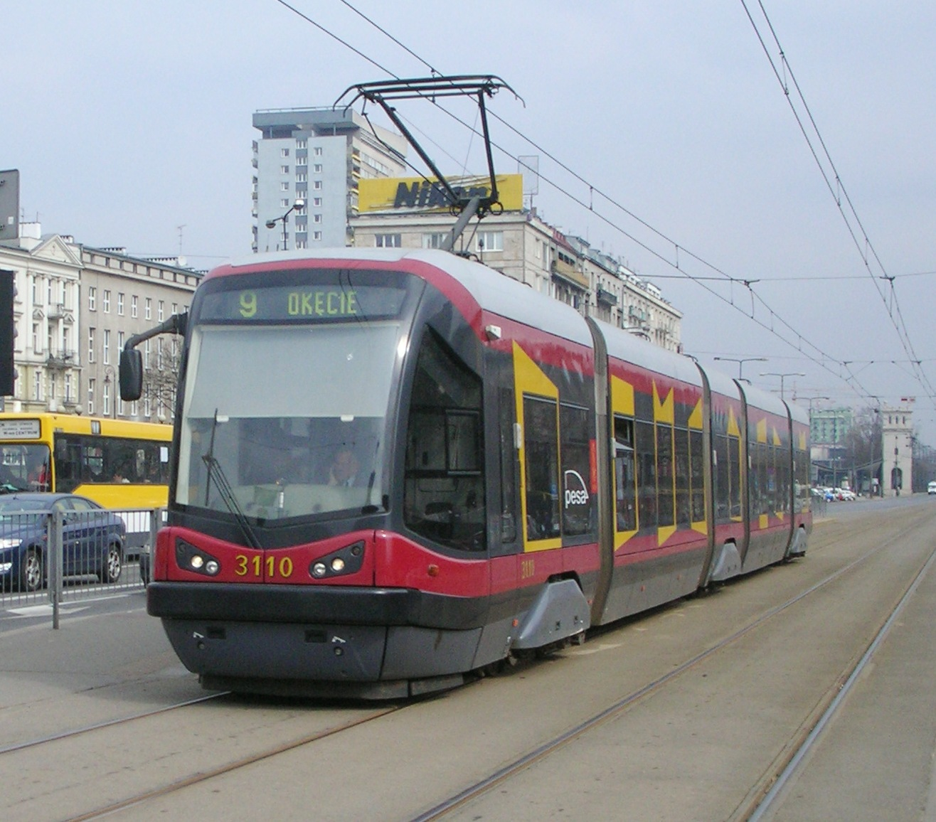 Pesa 120N tram (#3110) in Warsaw, Poland. Built 2007, Tramwaje Warszawskie operator.